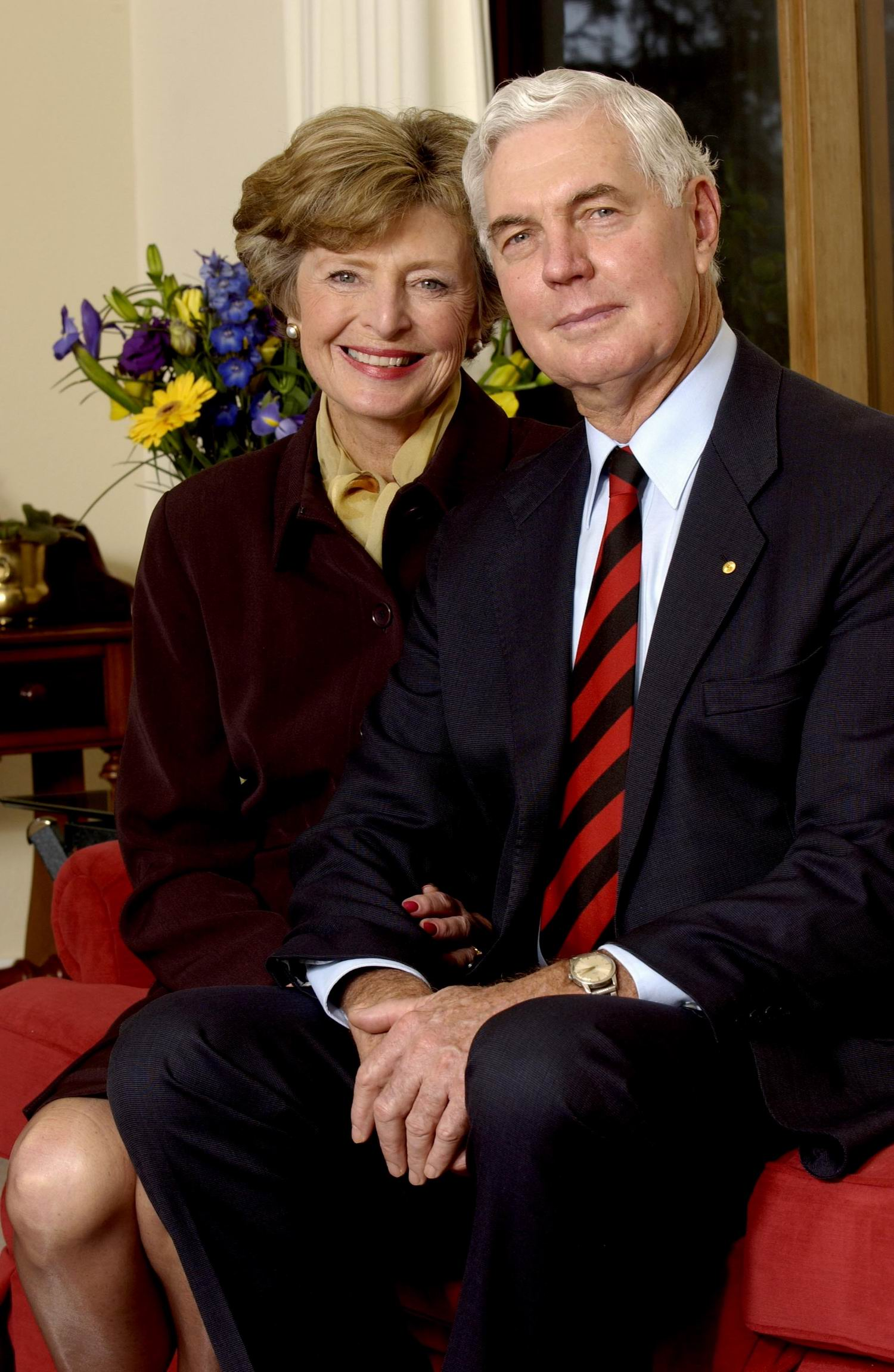 Official portrait of His Excellency Major General Michael Jeffery, AC, CVO, MC (Retd) and his wife, Marlena Jeffery